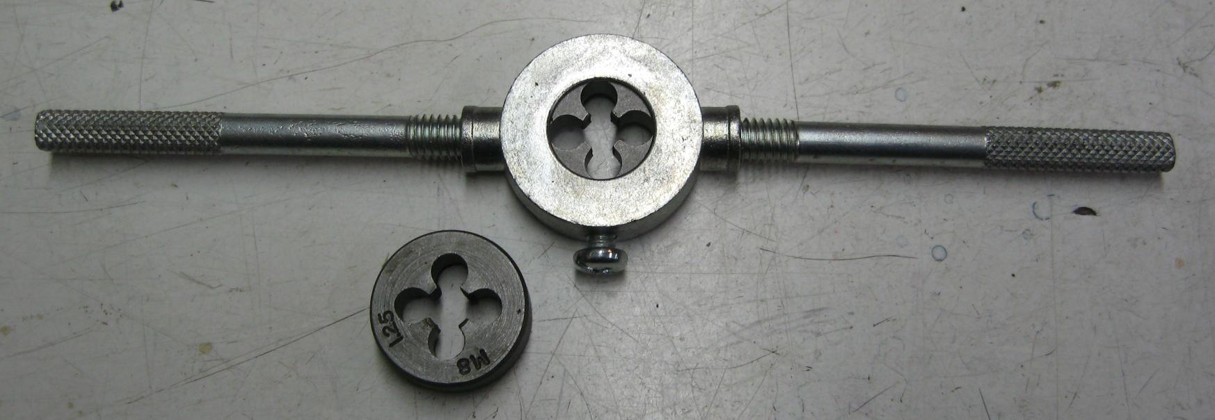 Die wrench handle holding an M7 thread die. Die is retained using a conical-tipped screw that engages a conical divot in the side of the die. Also shown is an M8 thread die.